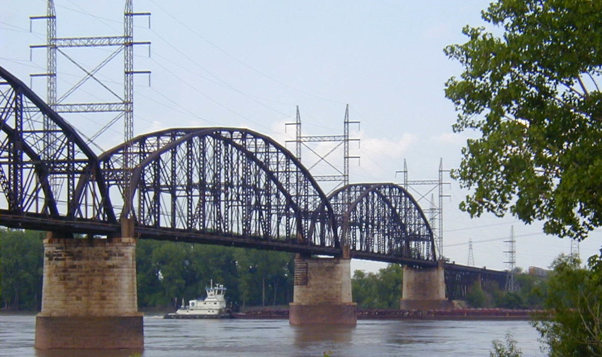 The Riverfront Trail passes under Merchants Bridge - a railroad bridge that was completed in 1890 and is still in use today.